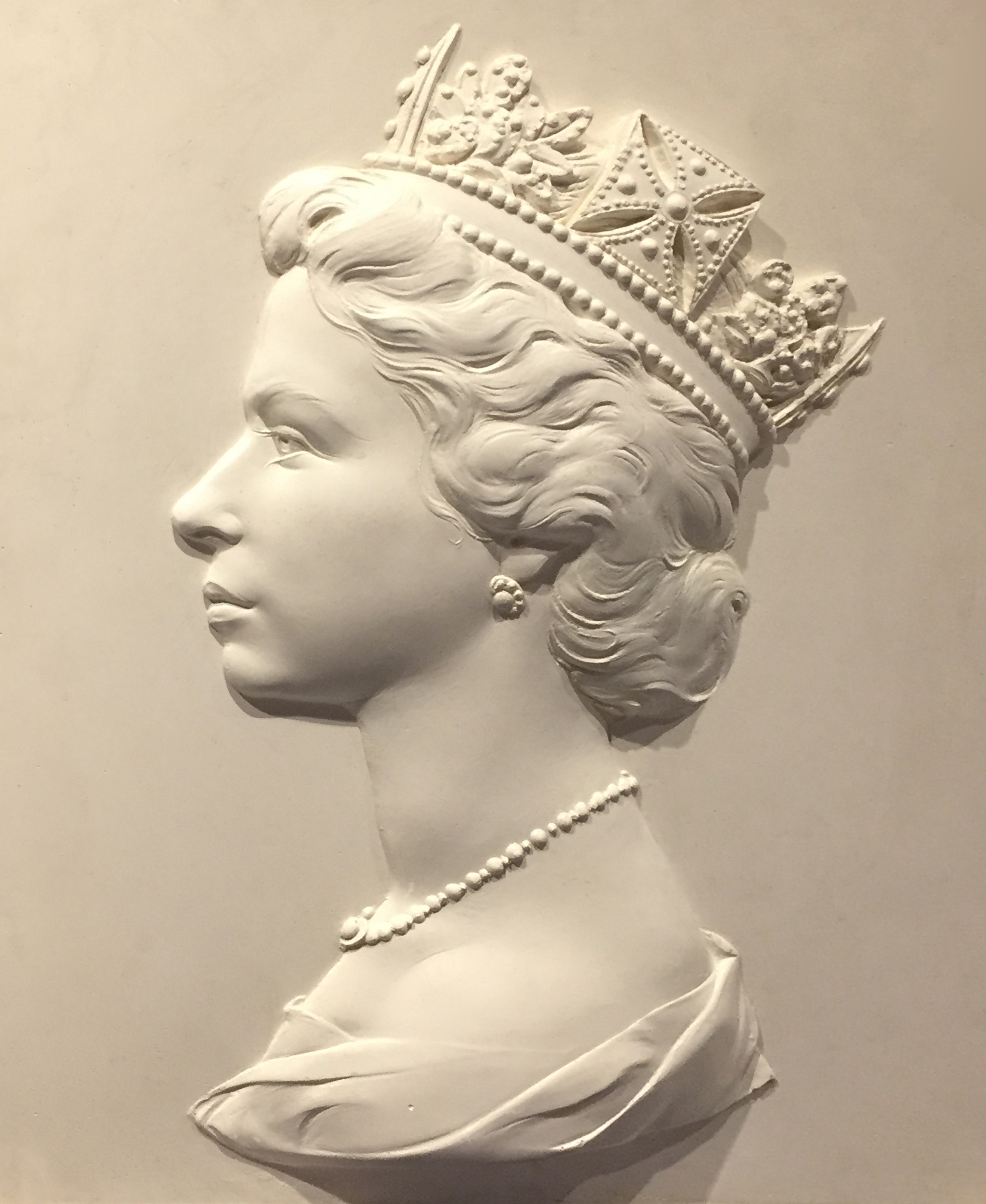 Original sculpture used in the making of the Machin series of postage stamps in the United Kingdom, featuring Queen Elizabeth II wearing the Diamond Diadem, on display at the Postal Museum in Clerkenwell, London.